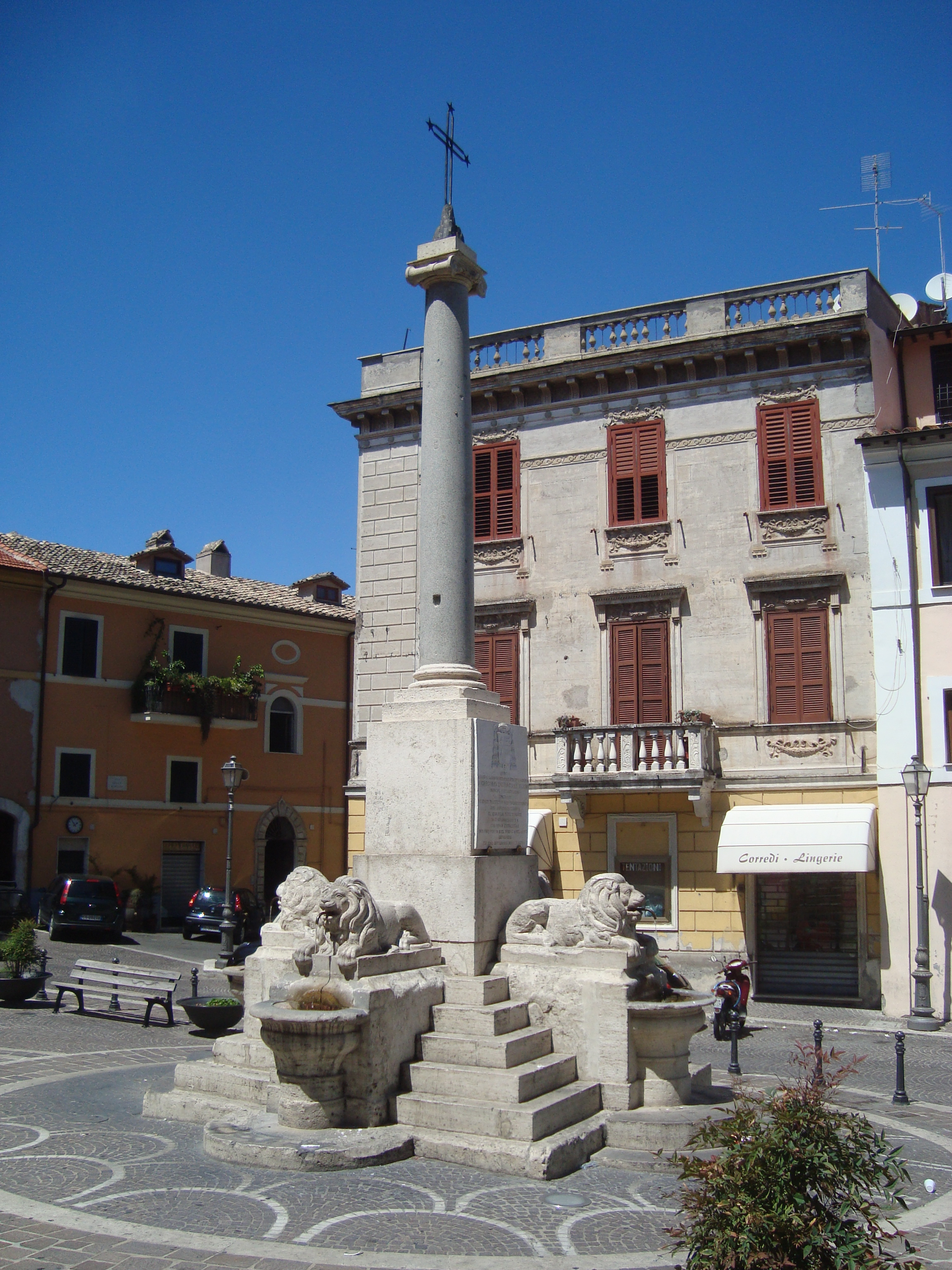 The Fontane delle Leone in Monterotondo on the piazza del popolo.